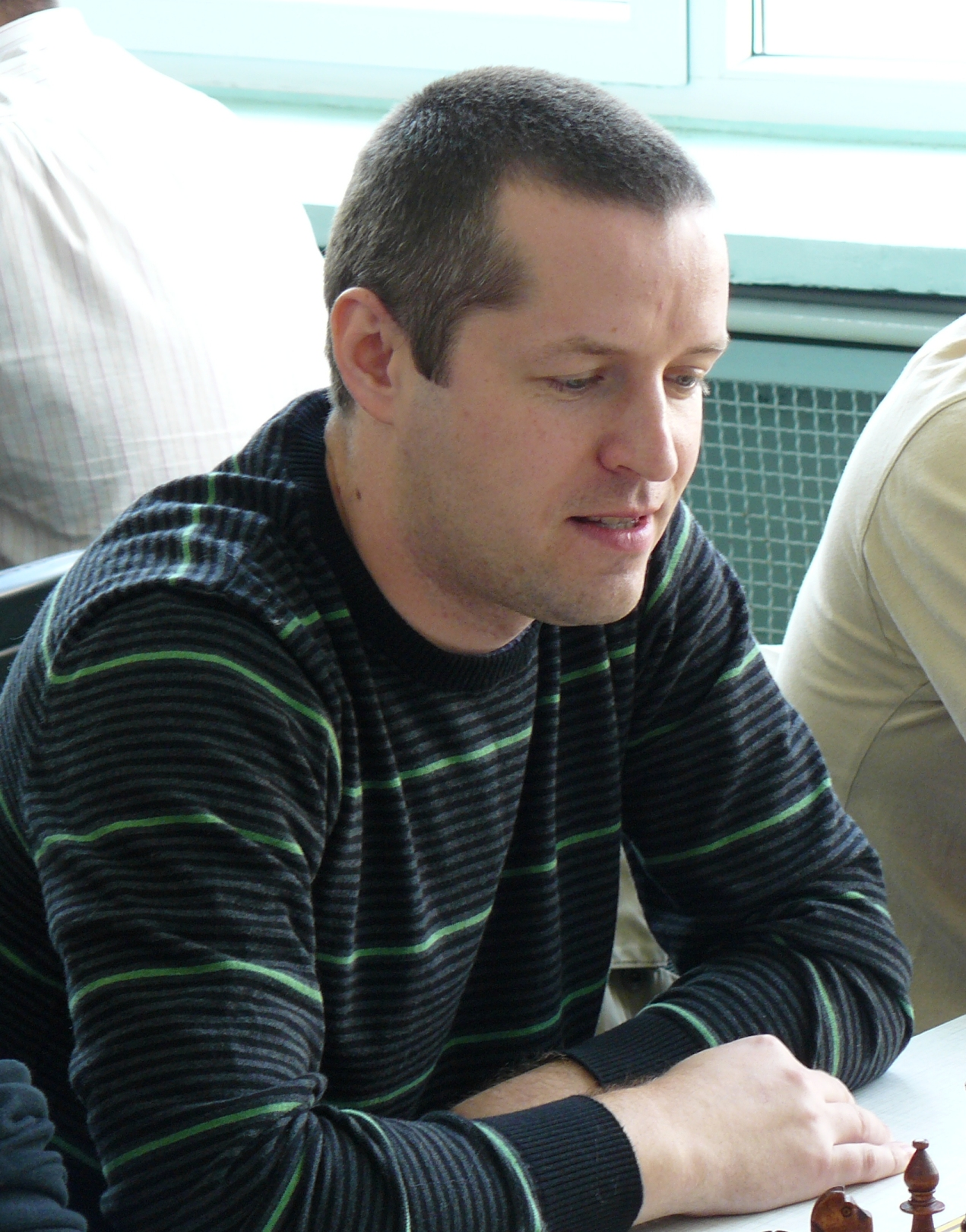 GM Piotr Bobras Poland, Bydgoszcz 2009.